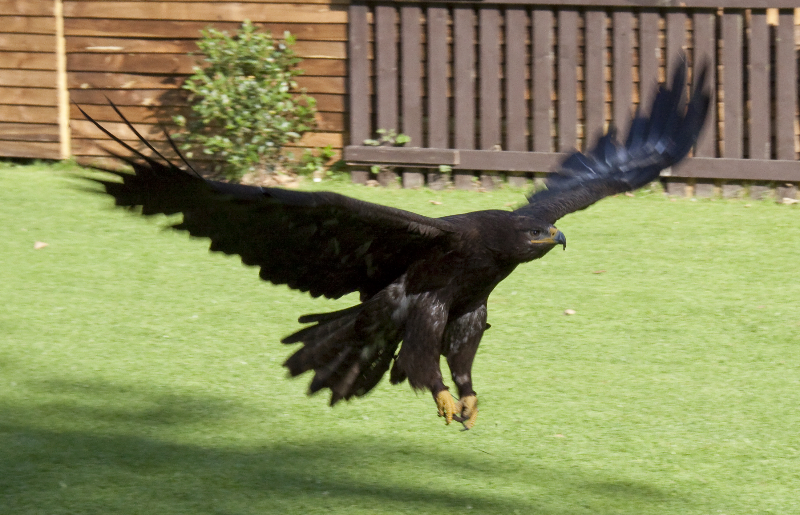 Steppe Eagle 4